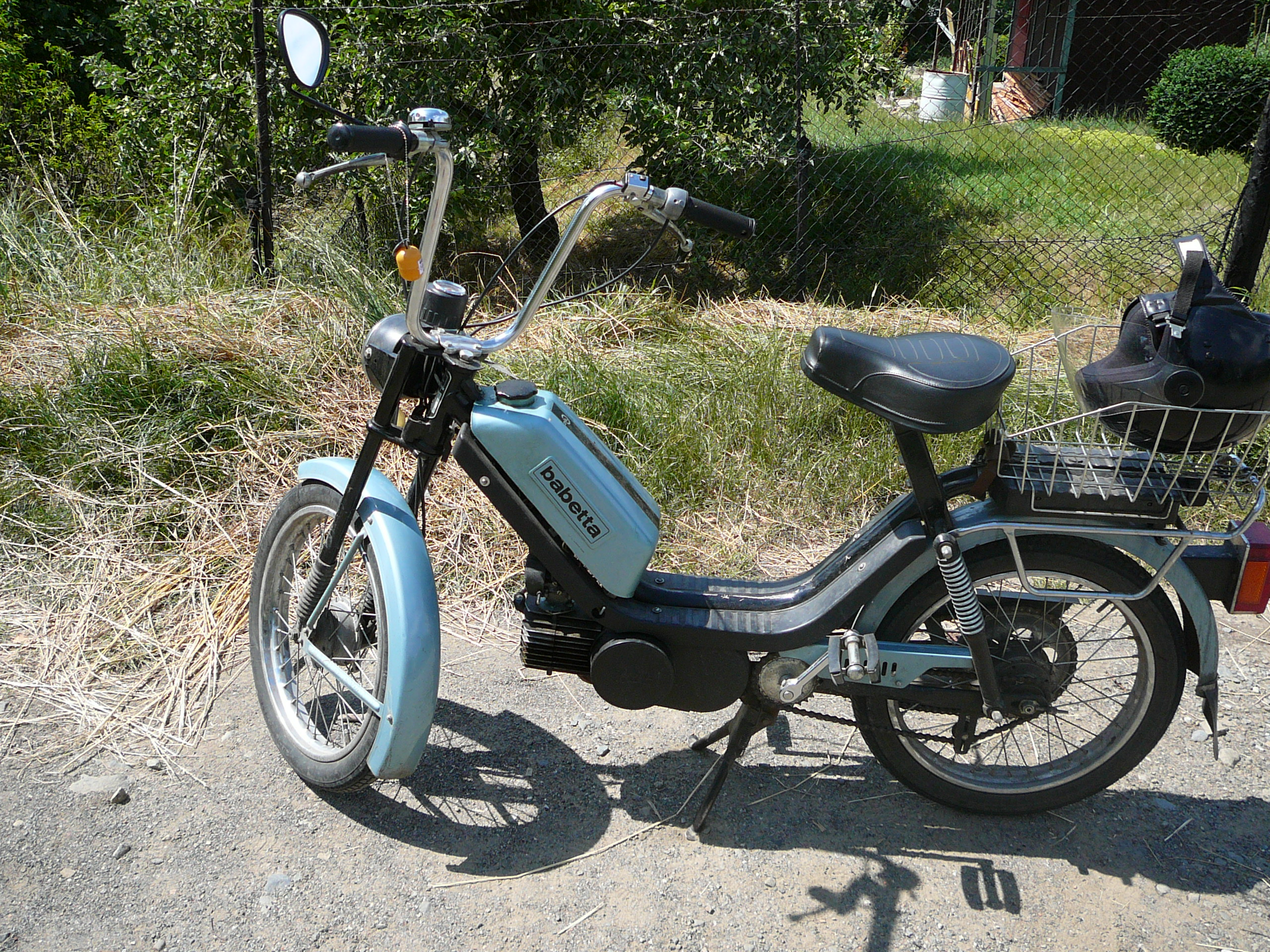 Babetta 210? or 215?